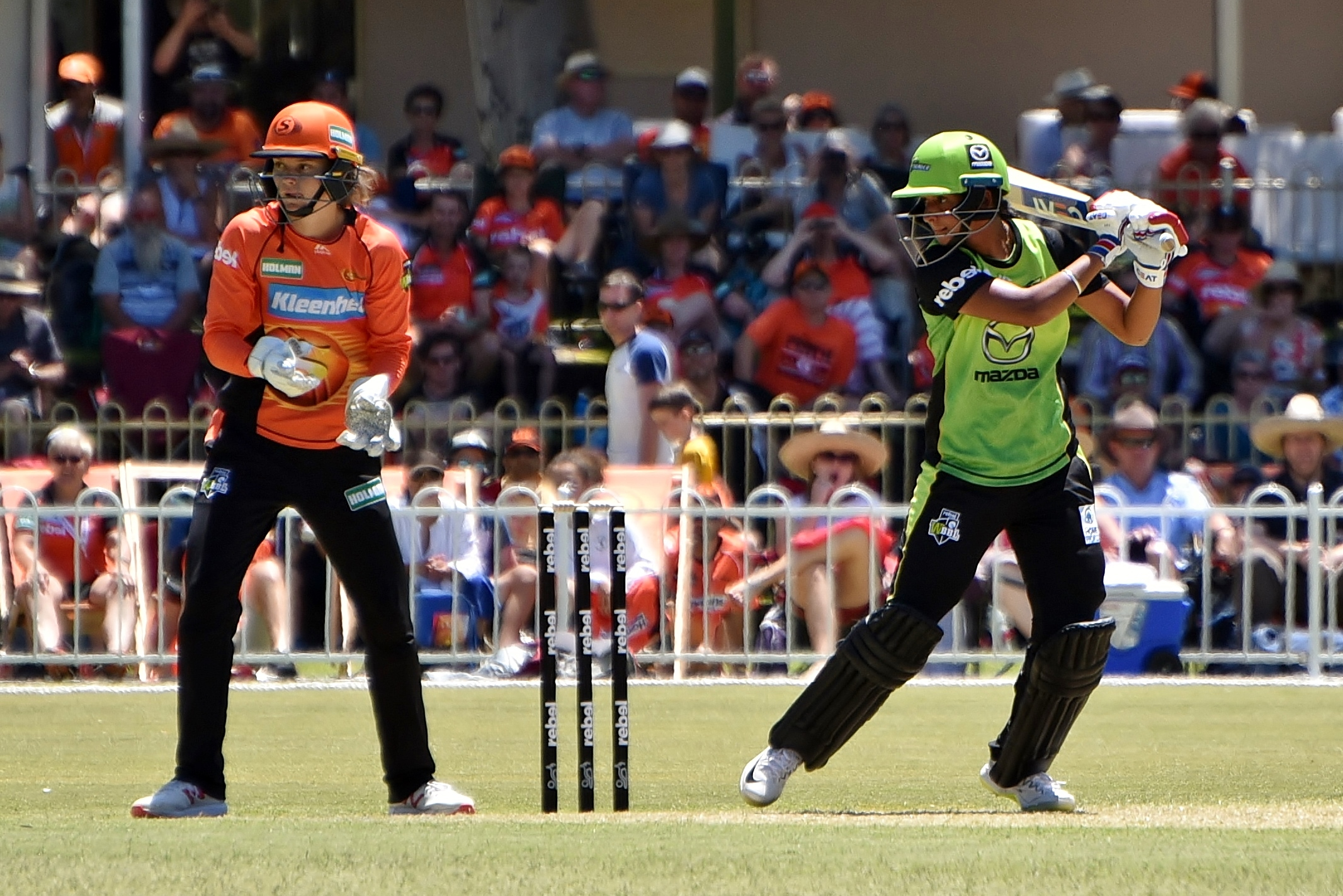 Sydney Thunder batter Harmanpreet Kaur batting against the Perth Scorchers, in a WBBL match at Lilac Hill Park in Perth. The (other) wicket-keeper is Amy Jones.